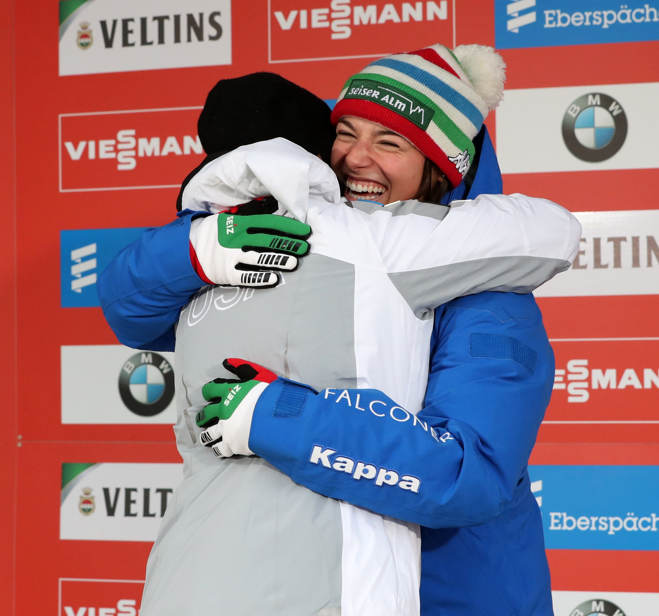 Women´s Nationscup race in Winterberg: Sandra Robatscher, Emily Sweeney